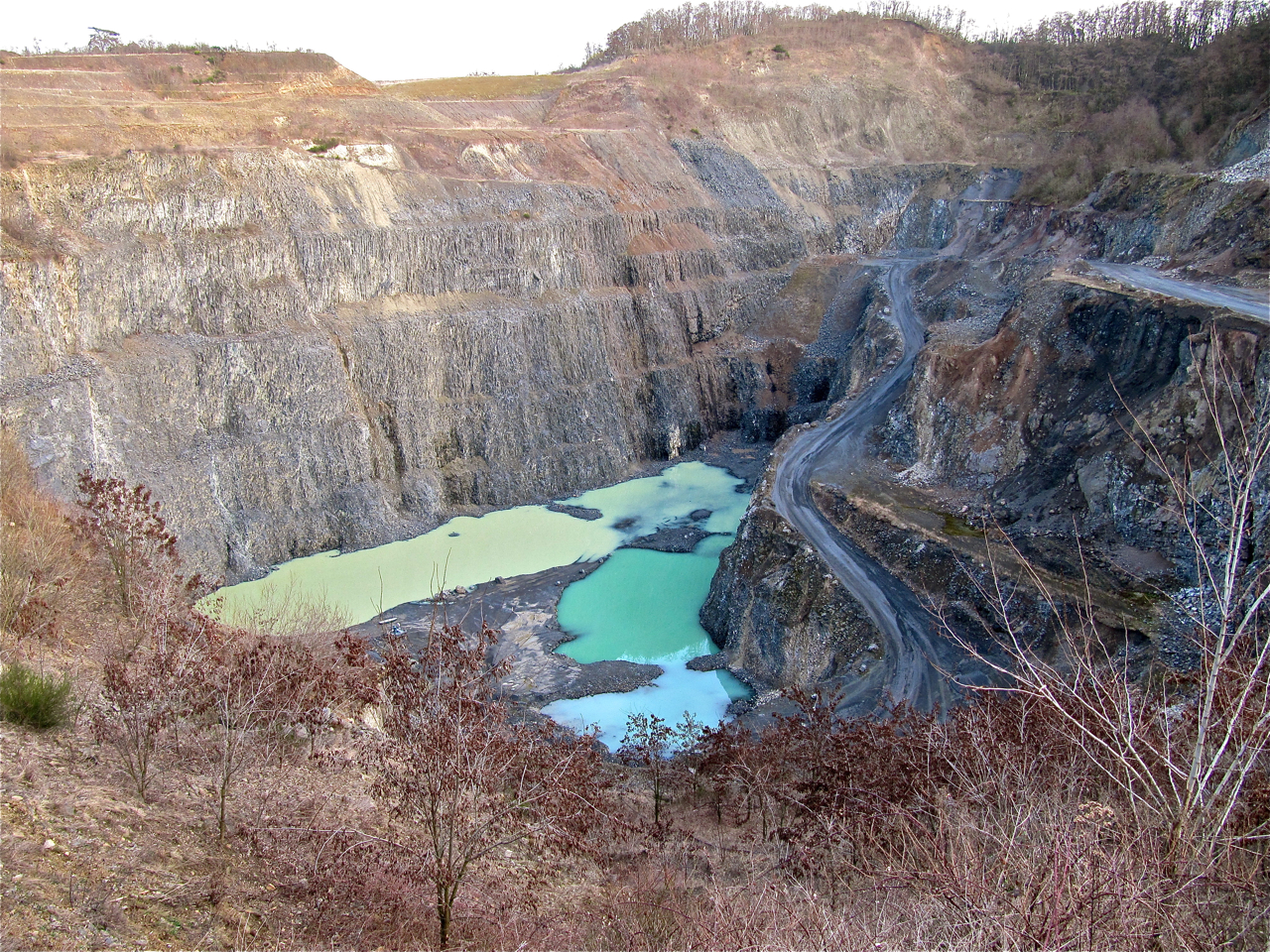 Looking into the Roßberg near Roßdorf in Hesse, Germany